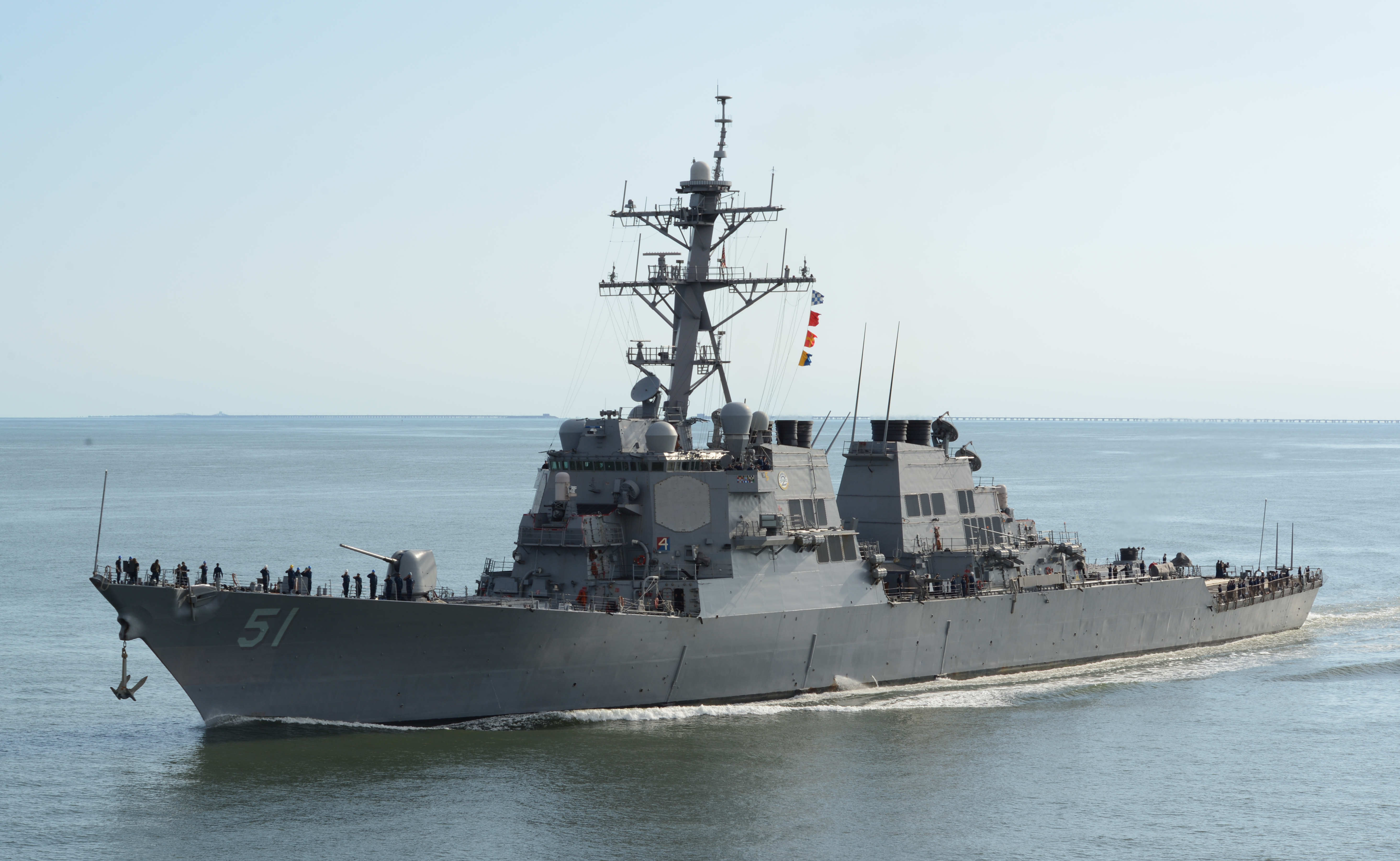 The guided-missile destroyer USS Arleigh Burke (DDG 51) transits the Chesapeake Bay on its way back into port. (U.S. Navy Photo by Mass Communication Specialist 1st Class RJ Stratchko/Released)